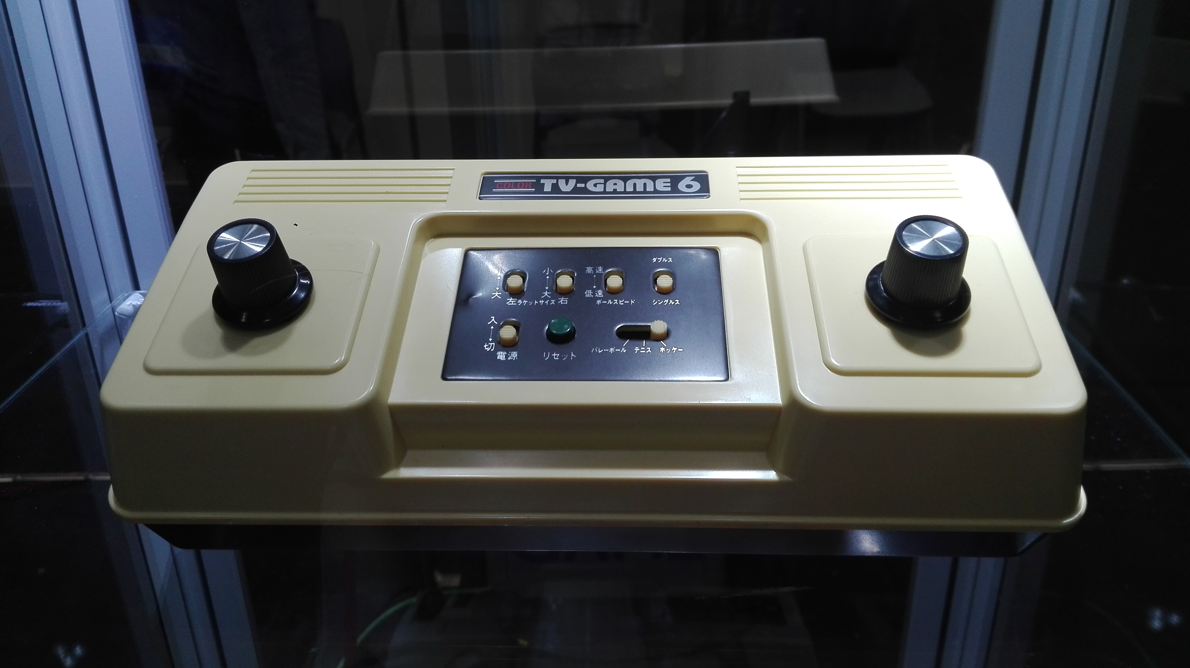 Color TV-Game 6 white